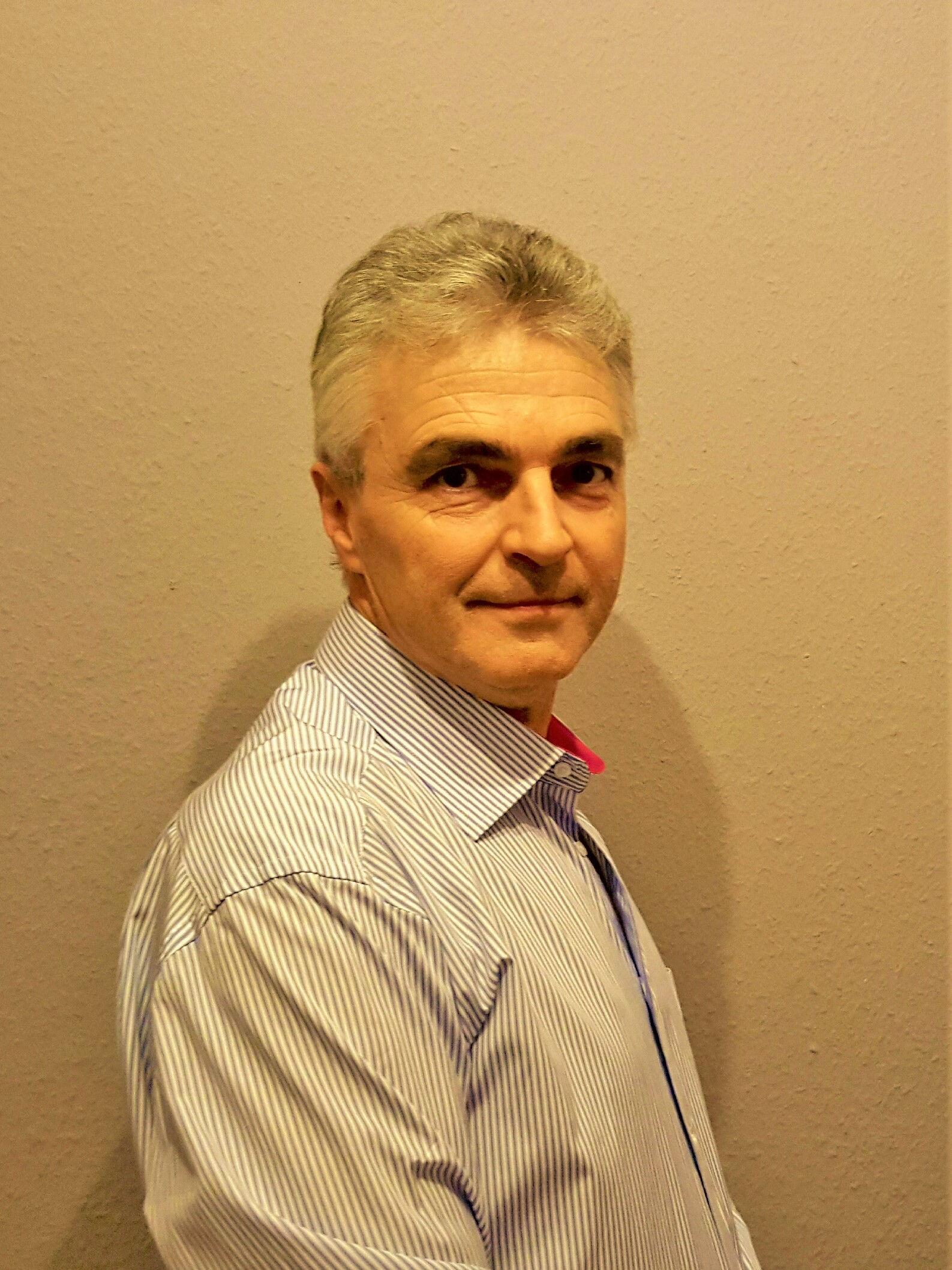 Fetter György olympic sprinter